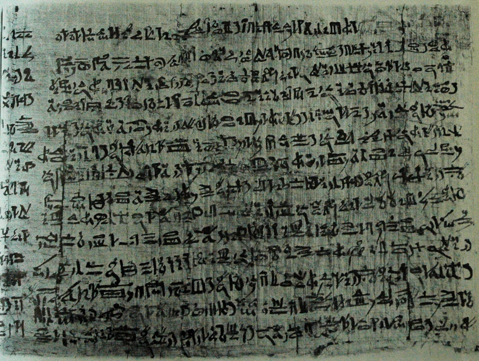 First page of the papyrus moskau 127 that contains the tale of woe (moskauer literarischer Brief, Brief des Wermai).